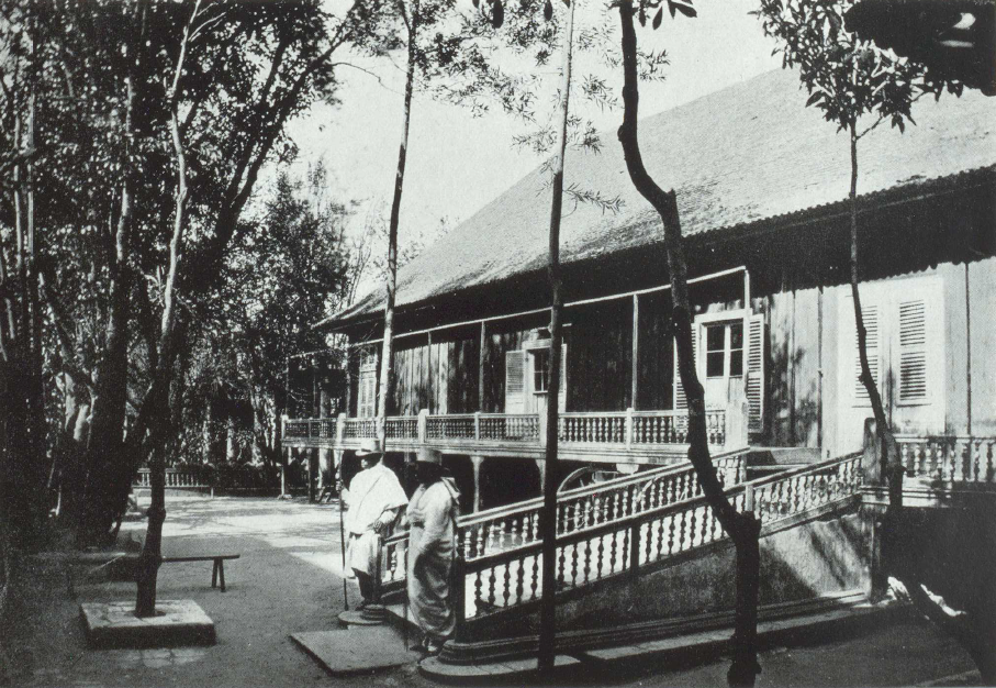 Tsarahafatra, residence of queens Ranavalona II and III, at the Rova of Antananarivo royal palace compound in Madagascar